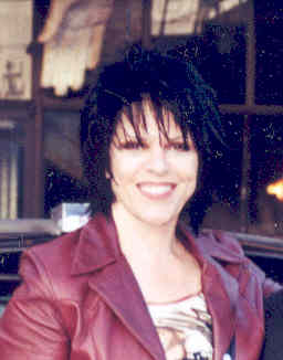 April Winchell